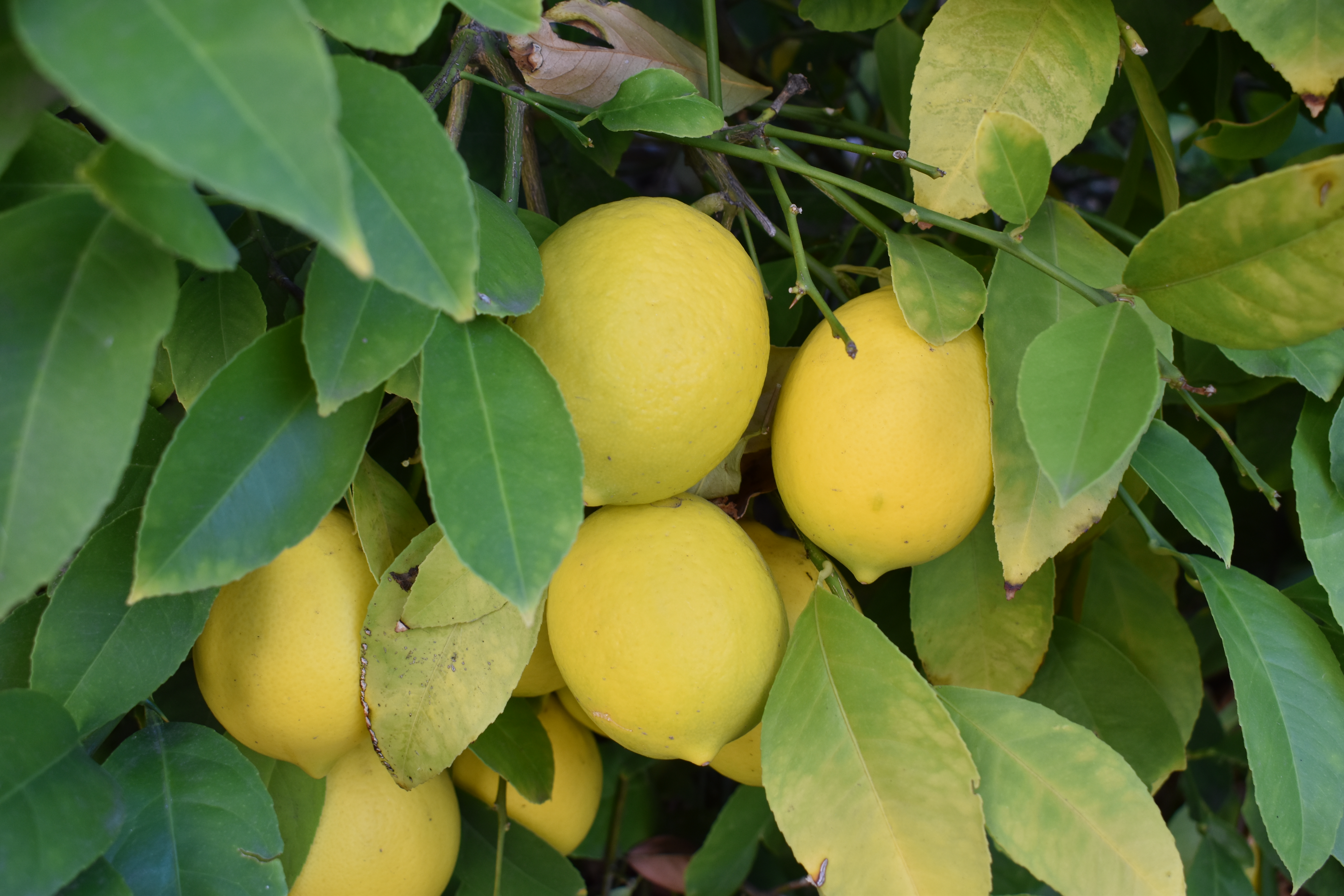 Lemon Tree